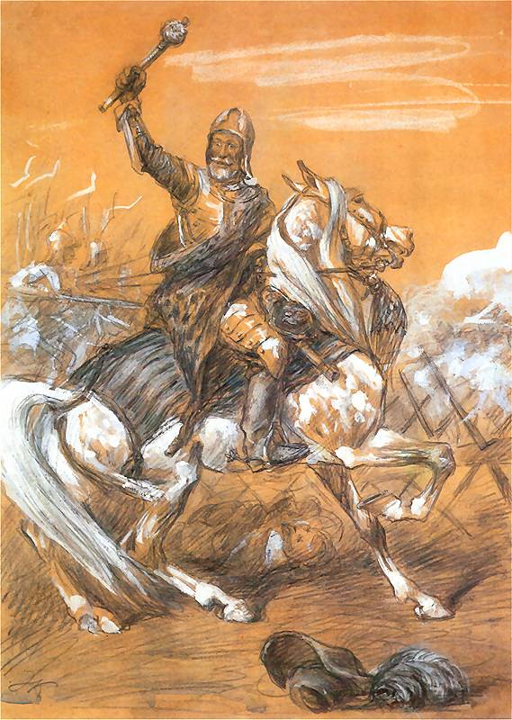 Jan Karol Chodkiewicz on a sketch.